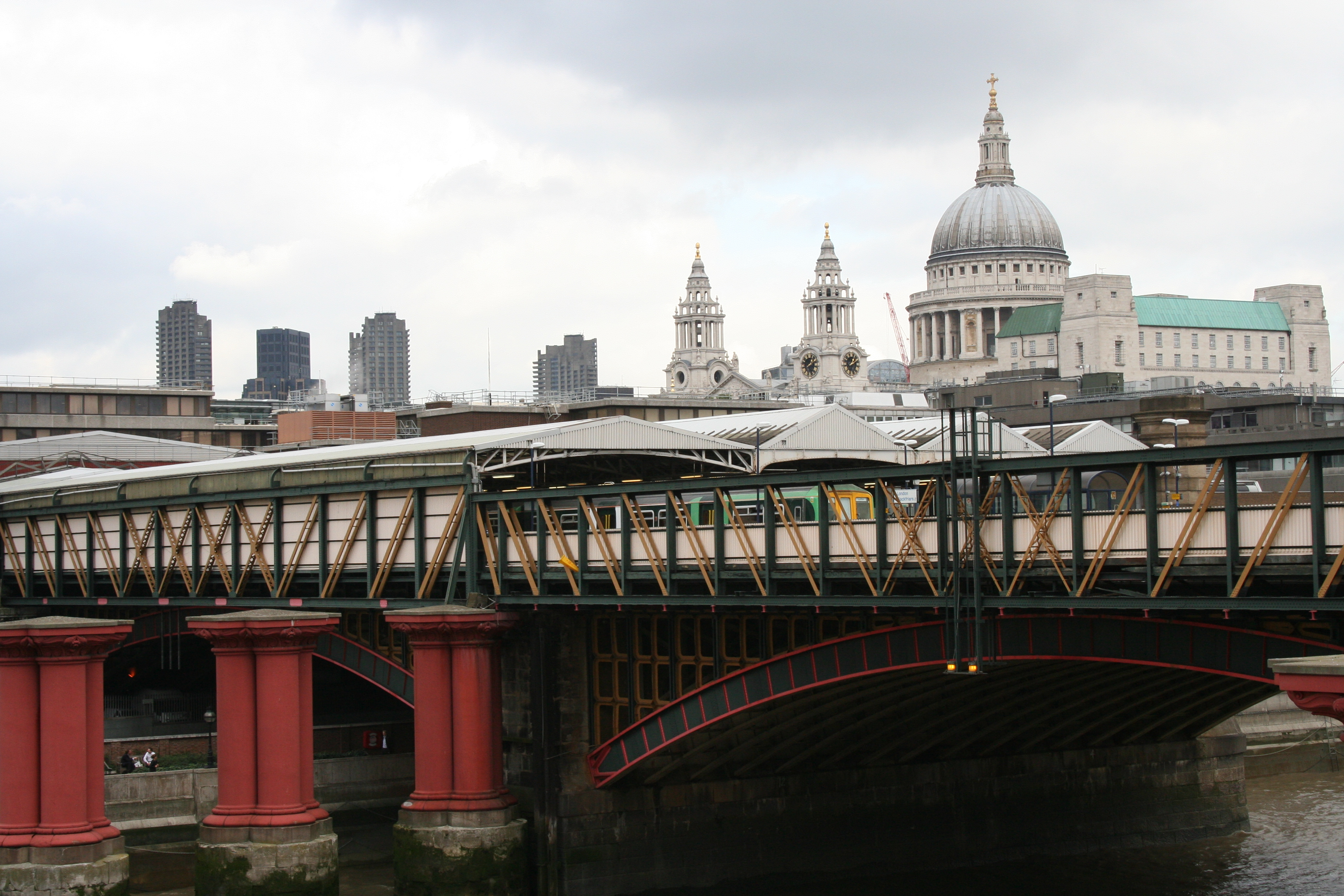 The platforms at Blackfriars Station, London